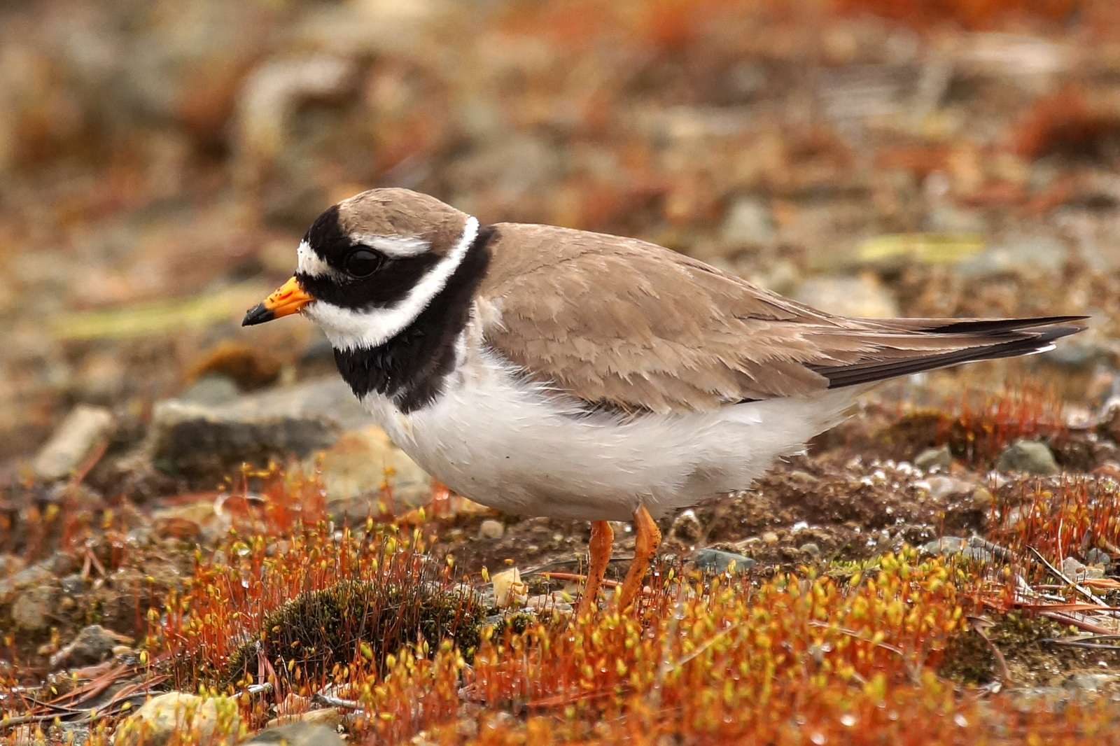 Charadrius hiaticula in Kolari, Finland.